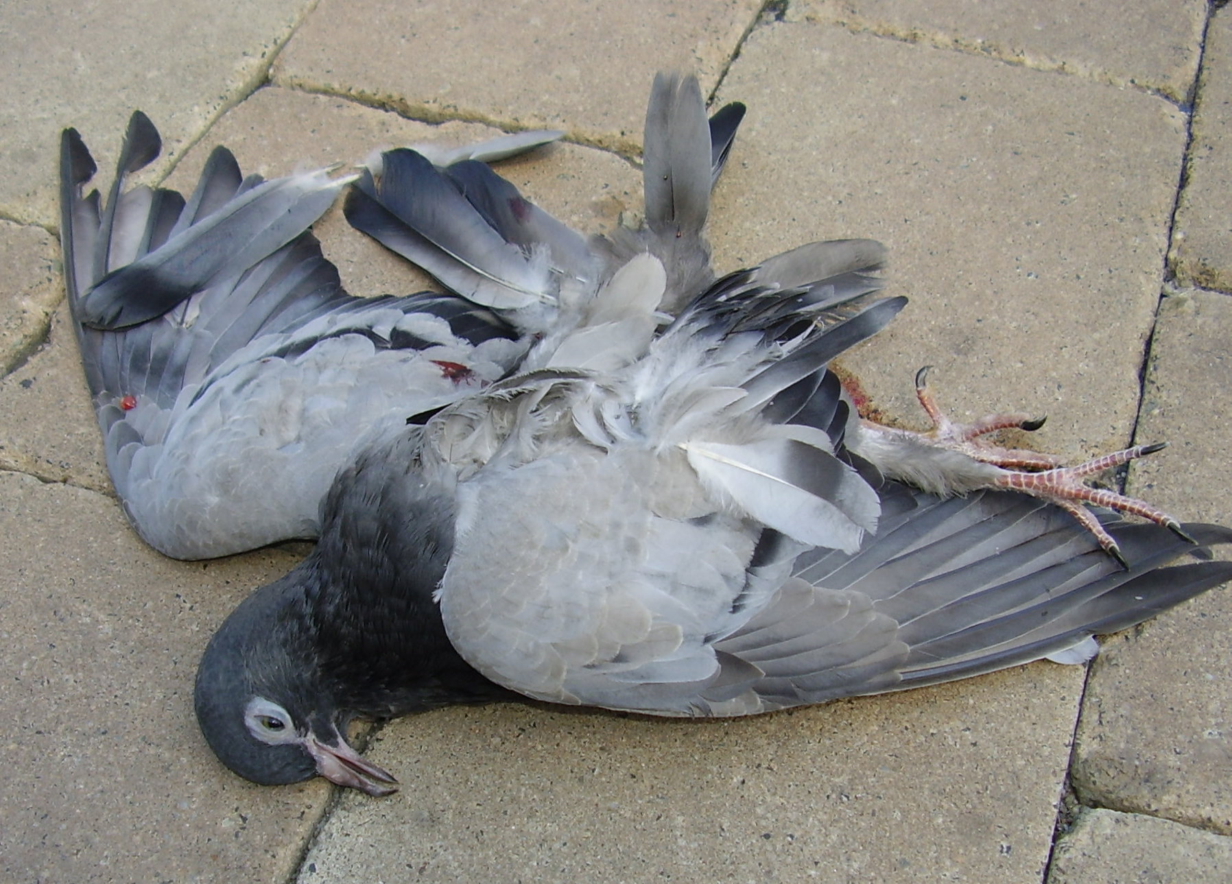 A dead pigeon in Krakow.